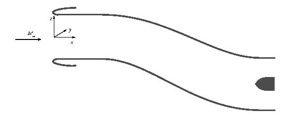 Geometric configuration for subsonic flow in an s-duct inlet.